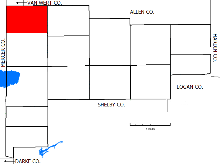 Taken from the Auglaize County map provided by Prinzwilhelm, who claimed that the original map was "self-created based on U.S. Government Census Maps and Date," and modified by myself to show the highlighted township.